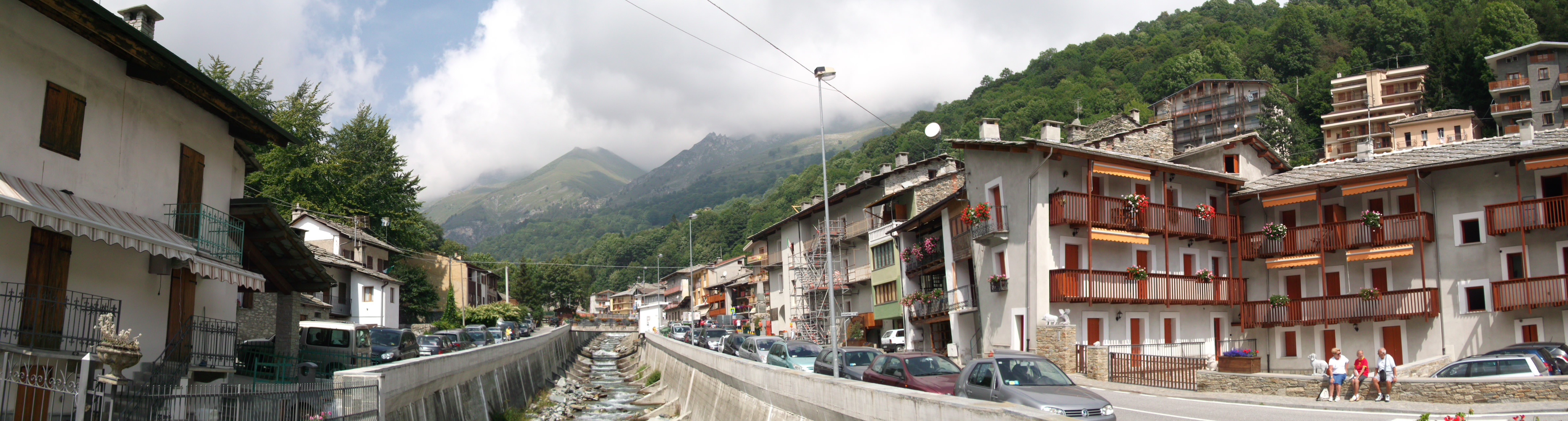 panoramic view of Crissolo (CN) - Italy